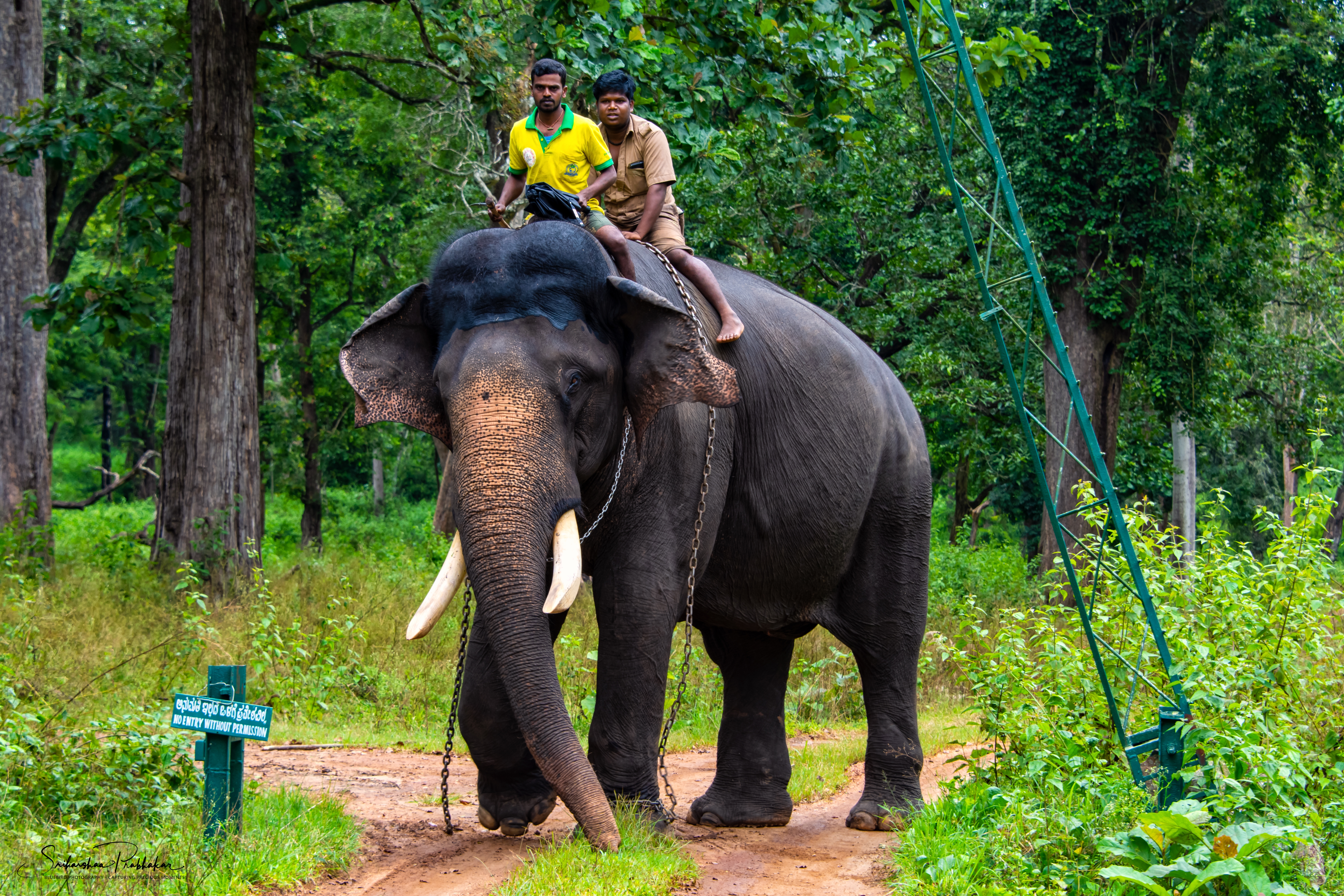 This is Arjuna with his Mahout Mr. Vinu Doddappaji and the Kaavadiga entering the Balle Forest for his Morning Walk! Arjuna and Vinu were very cooperative for me to get this shot!